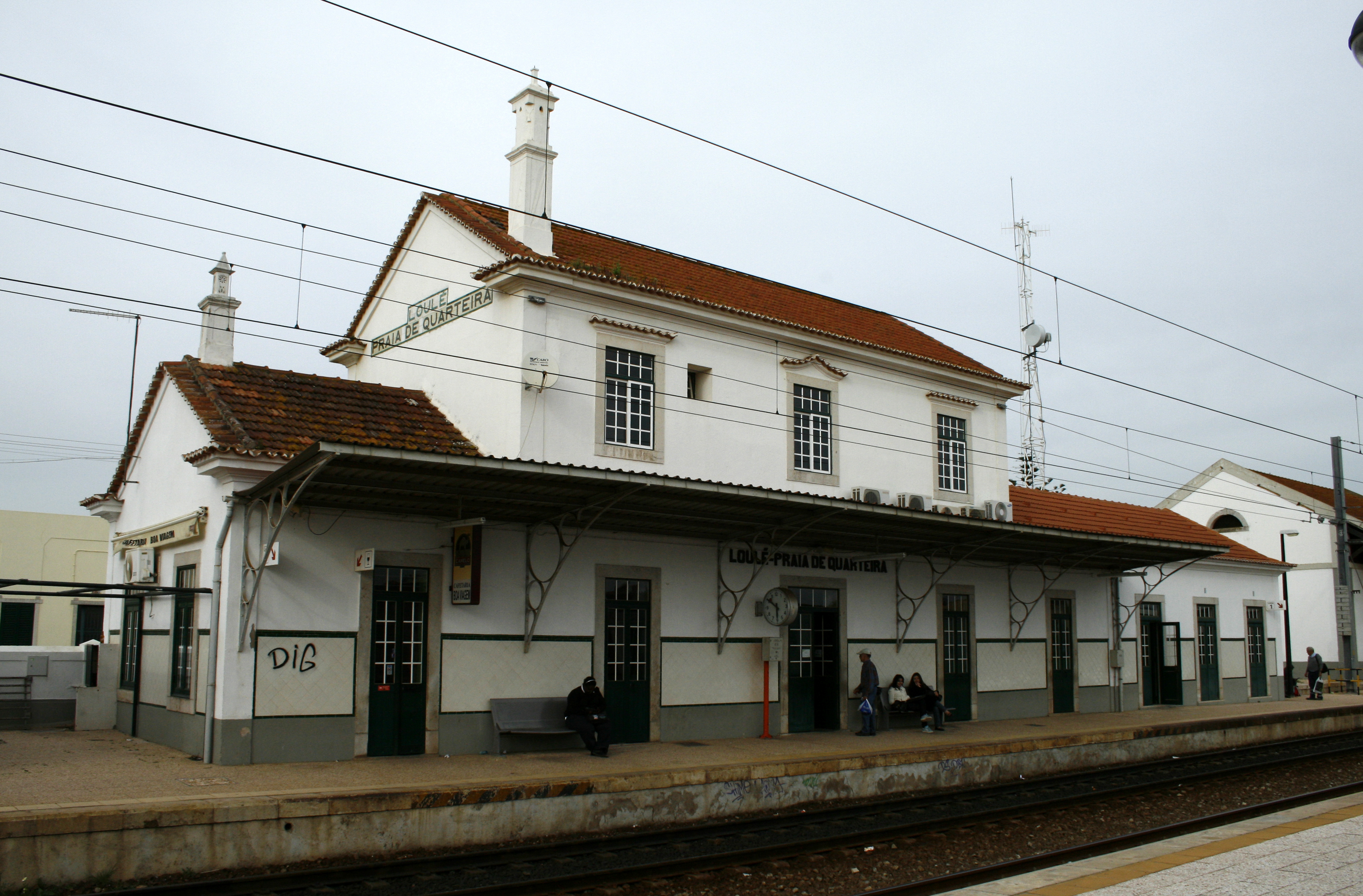 Loulé-Praia de Quarteira Train Station, in the Algarve Line, in southern Portugal.